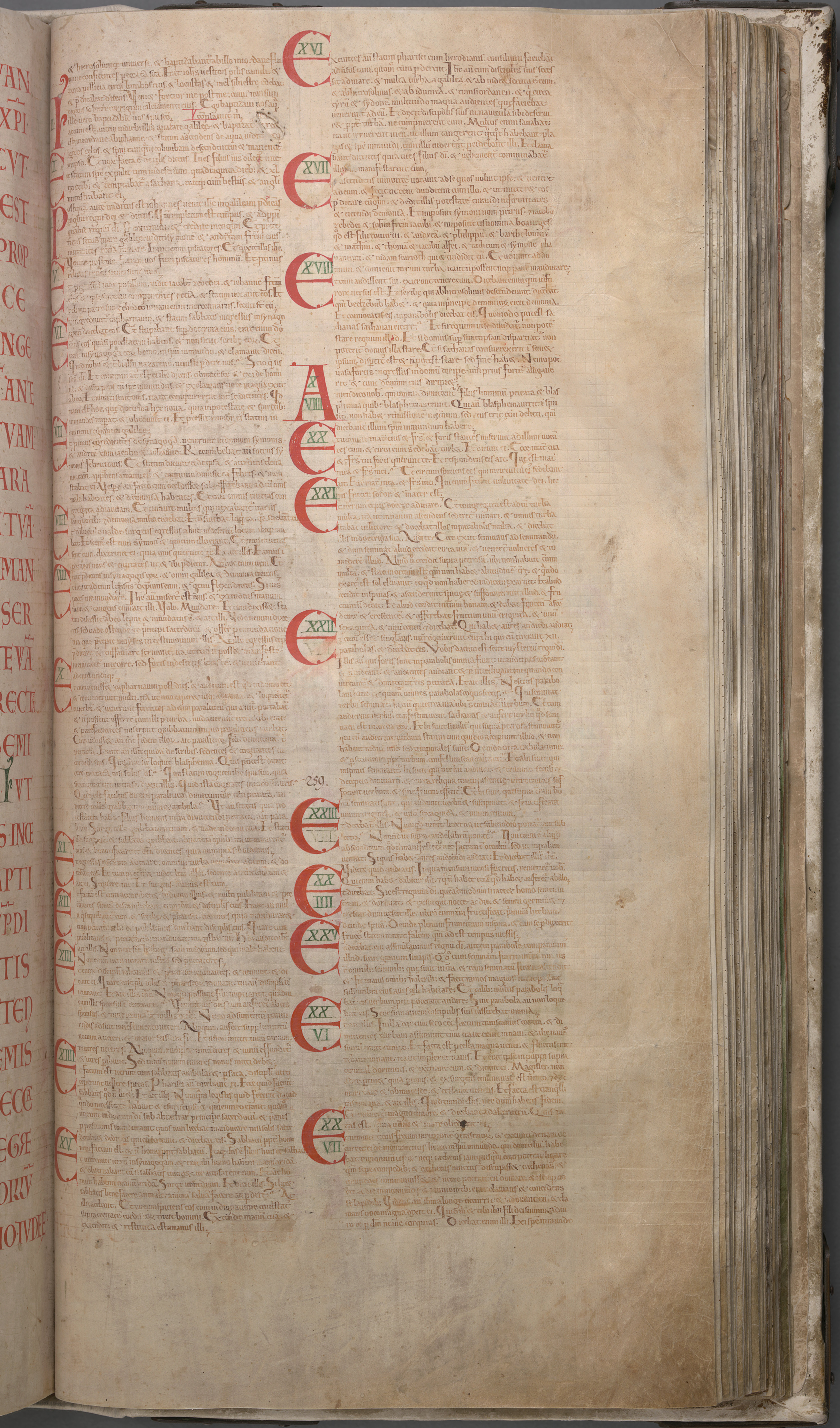 Giant Book) is the largest extant medieval manuscript in the world. It is also known as the Devil's Bible because of a large illustration of the devil on the inside and the legend surrounding its creation. It is thought to have been created in the early 13th century in the Benedictine monastery of Podlažice in Bohemia (modern Czech Republic). It contains the Vulgate Bible as well as many historical documents all written in Latin. During the Thirty Years' War in 1648, the entire collection was taken by the Swedish army as plunder, and now it is preserved at the National Library of Sweden in Stockholm, though it is not normally on display.